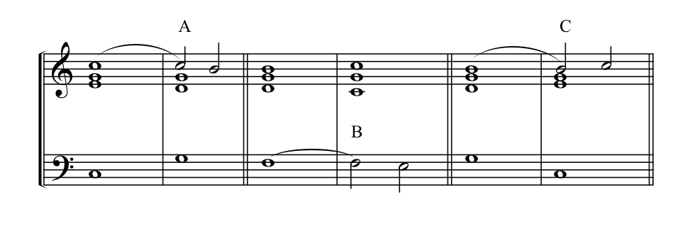 Suspension and retardation exemples